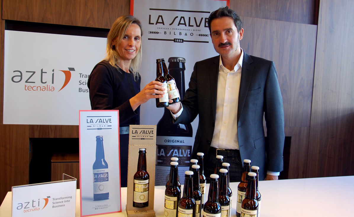 Agreement between Azti and La Salve